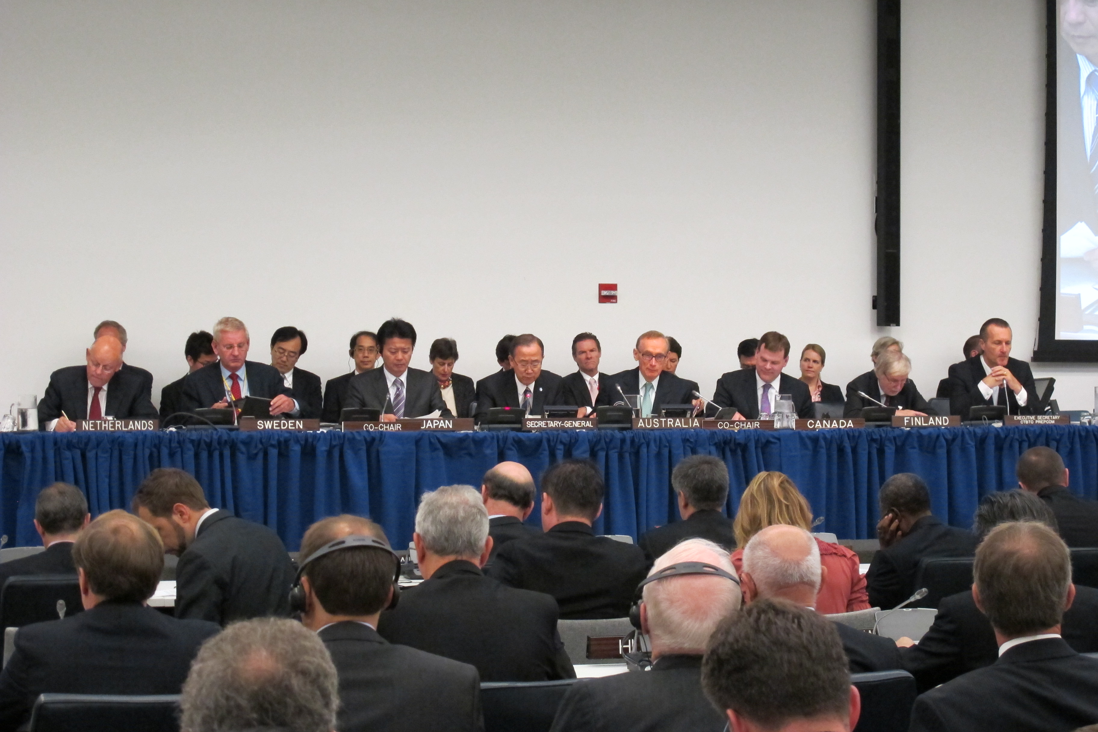 27 September 2012 - UN, New York Chair of the Sixth Ministerial Meeting on the Comprehensive Nuclear-Test-Ban Treaty (CTBT). From left to right, Dutch Foreign Minister, Uri Rosenthal; Swedish Foreign Minister, Carl Bildt; Japanese Foreign Minister, Koichiro Gemba; Secretary-General of the United Nations, Ban Ki-moon; Australian Foreign Minister, Bob Carr; Canadian Foreign Minister, John Baird; Finnish Foreign Minister, Erkki Tuomioja; Executive Secretary of the CTBTO, Tibor Tóth. Photo: CTBTO